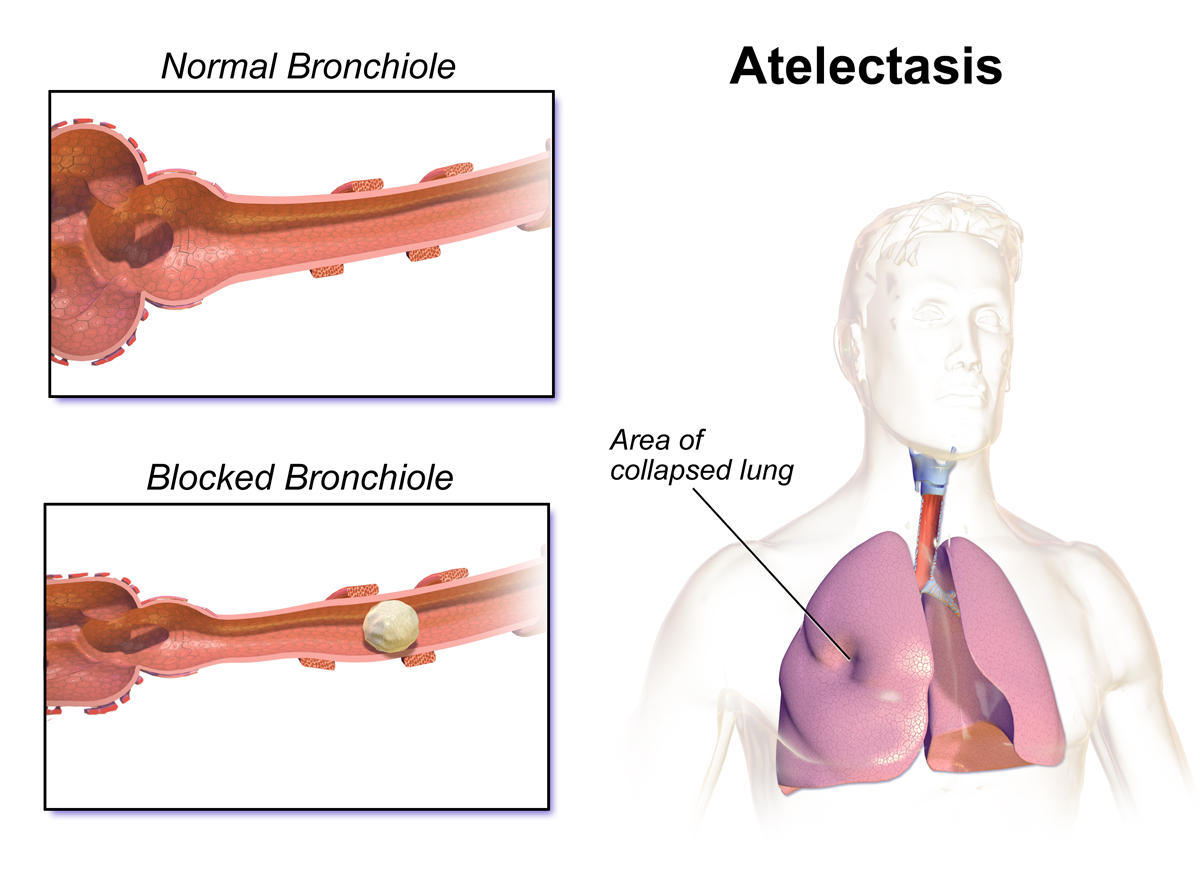 Atelectasis. See a full animation of this medical topic.